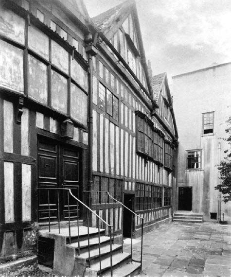 Medieval house knowns as the Mayor's Parlour. Was in Tenant St, Derby and demolished 1947-8